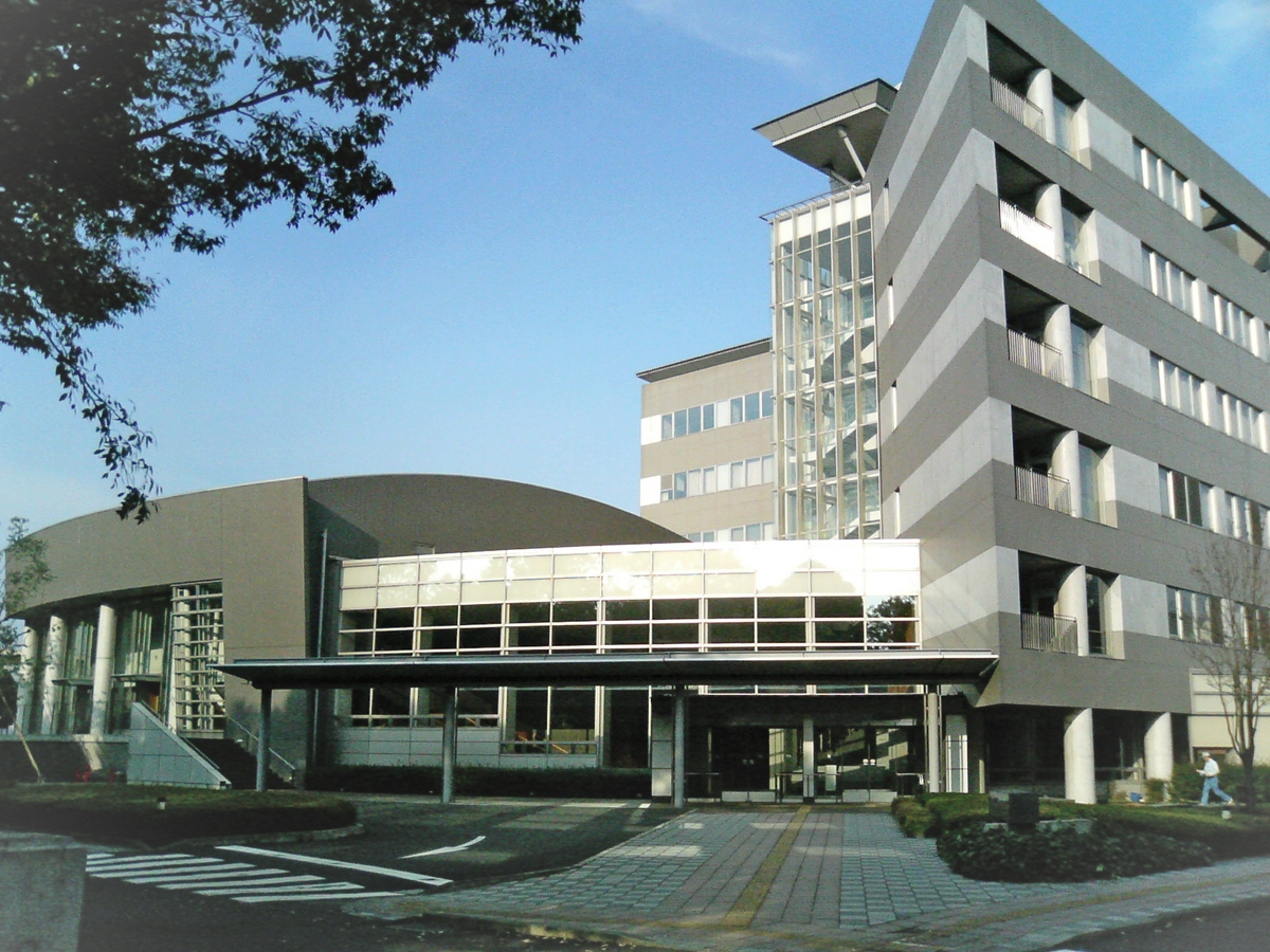 National Rehabilitation Center for Persons with Disabilities (NRCD) , College building from west gate. - Tokorozawa, Japan